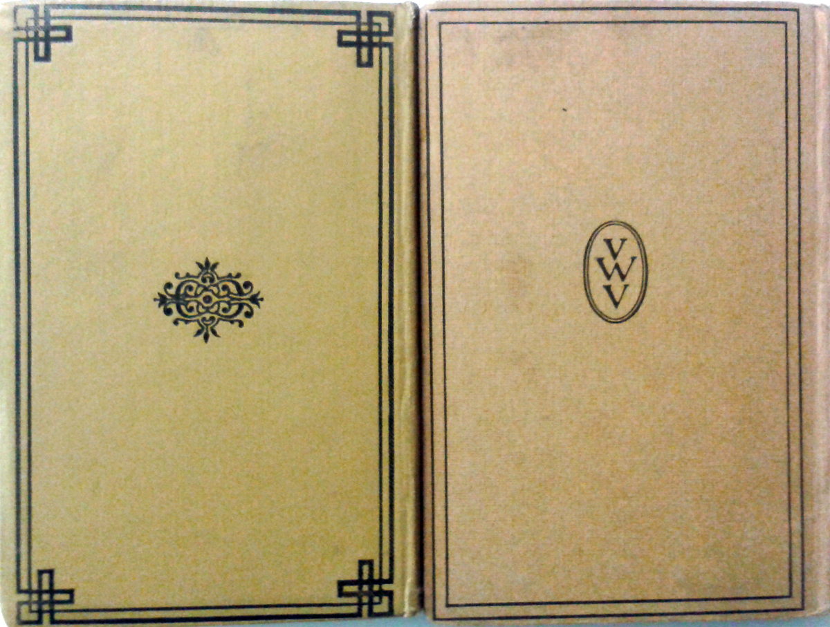 The books' back sides of Volume 235 and 477 of Goeschen collection left: Fritz Regel, Landeskunde der Iberischen Halbinsel (Regional and cultural studies of the Iberian peninsula), Vol. 235 (1905) right: J. Herrmann, Die elektrischen Meßinstrumente (Electrical measuring instruments), Vol. 477 (1921)